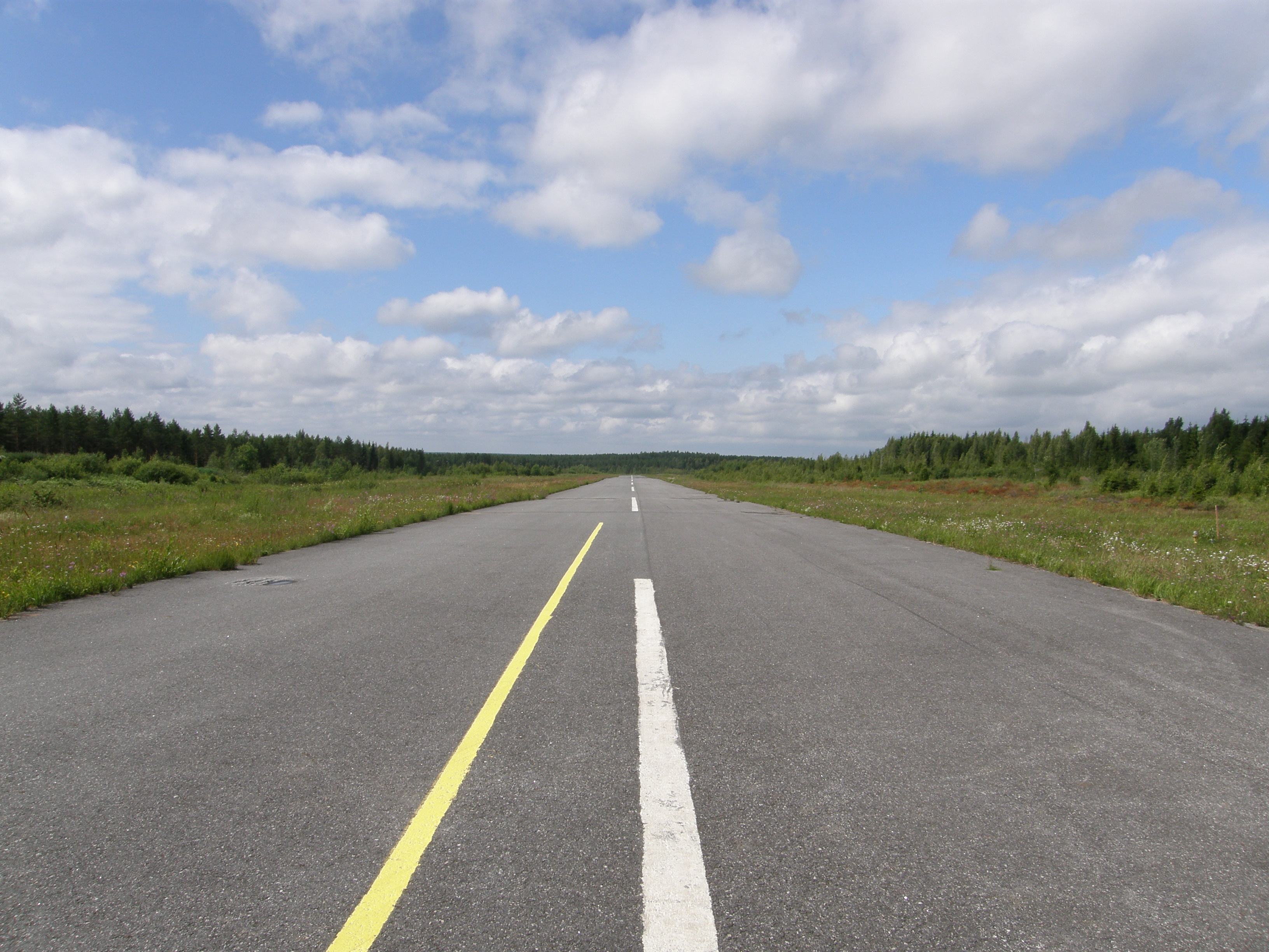 Runway 11/29 of Eura Airfield (EFEU), in Eura, Finland, seen towards west from the taxiway crossing